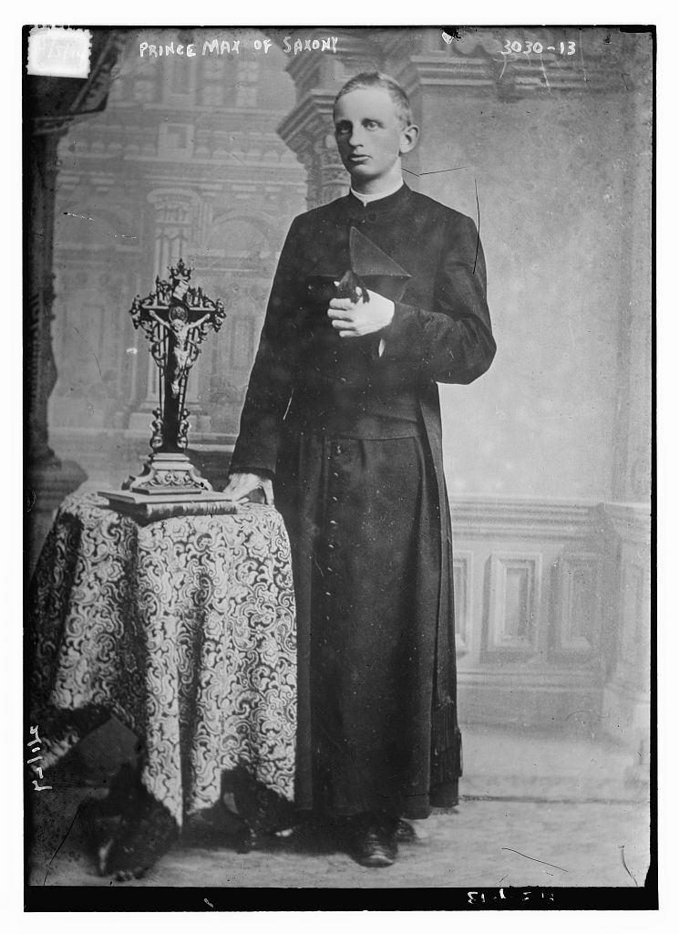 Prince Max of Saxony (LOC) Bain News Service,, publisher. Prince Maximilian of Saxony in 1915 [between ca. 1910 and ca. 1915] 1 negative : glass ; 5 x 7 in. or smaller. Notes: Title from unverified data provided by the Bain News Service on the negatives or caption cards. Forms part of: George Grantham Bain Collection (Library of Congress). Format: Glass negatives. Repository: Library of Congress, Prints and Photographs Division, Washington, D.C. 20540 USA, General information about the Bain Collection is available at Persistent URL: Call Number: LC-B2- 3030-13